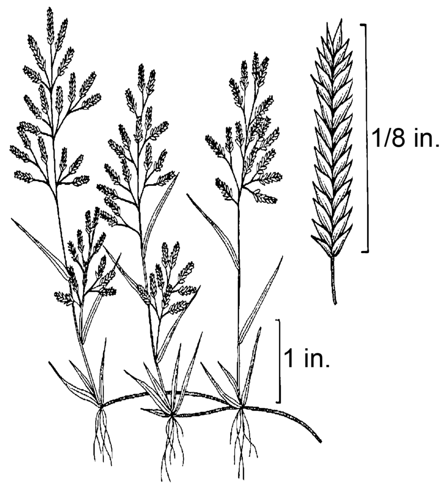 Eragrostis hypnoides (Lam.) Britton, Sterns & Poggenb.